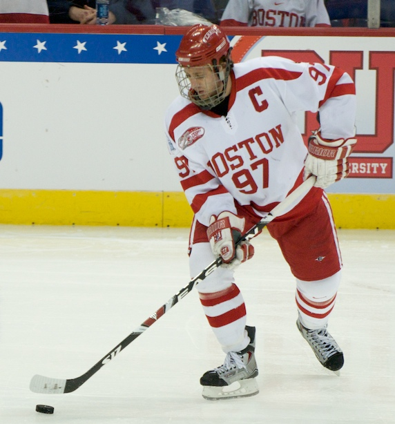 Matt Gilroy during the NCAA Frozen Four 2009 Semi-Finals.